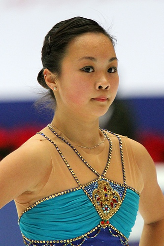 Kristiene Gong at the 2010-2011 ISU Junior Grand Prix Final.